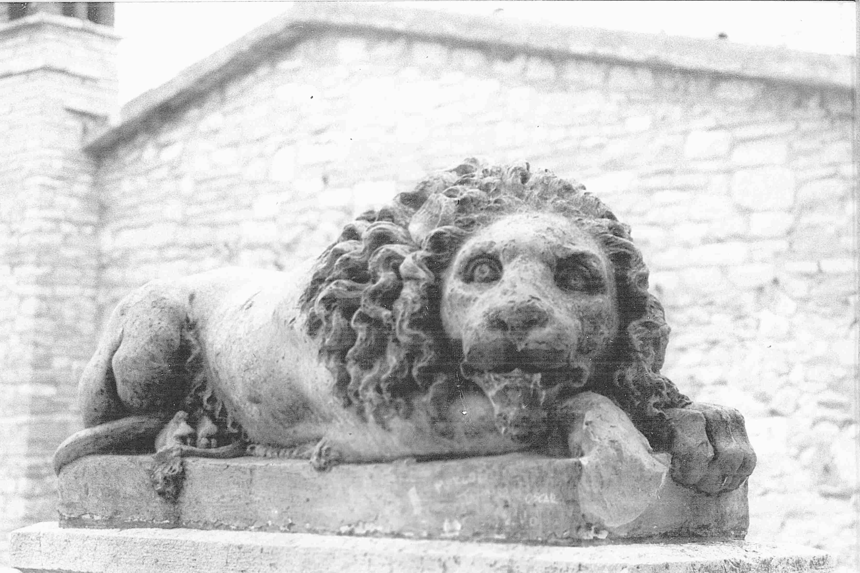 this pics has been taken outside the Santa Chiara Church in Assisi, in the square.